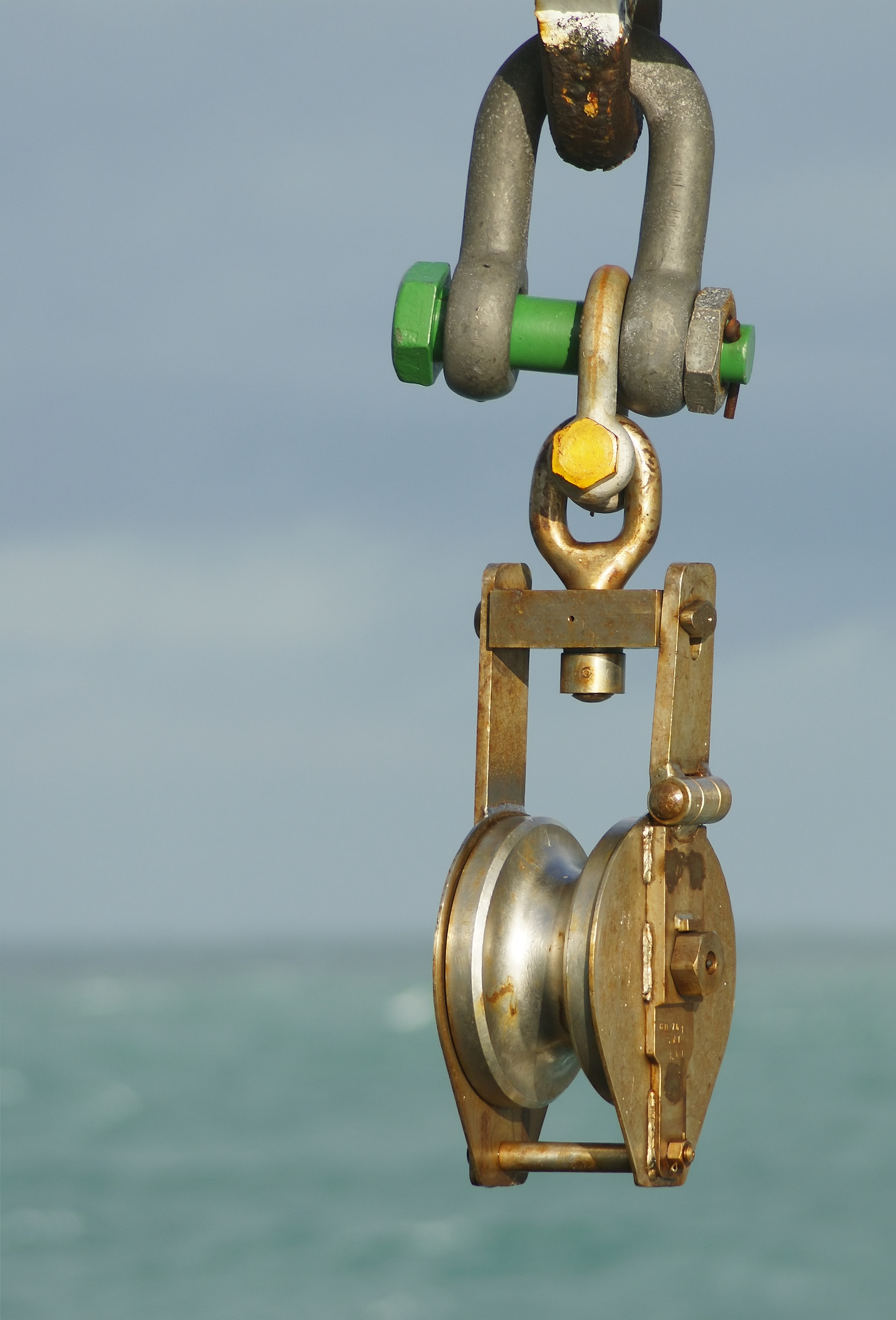 Pulley on R.V. Belgica